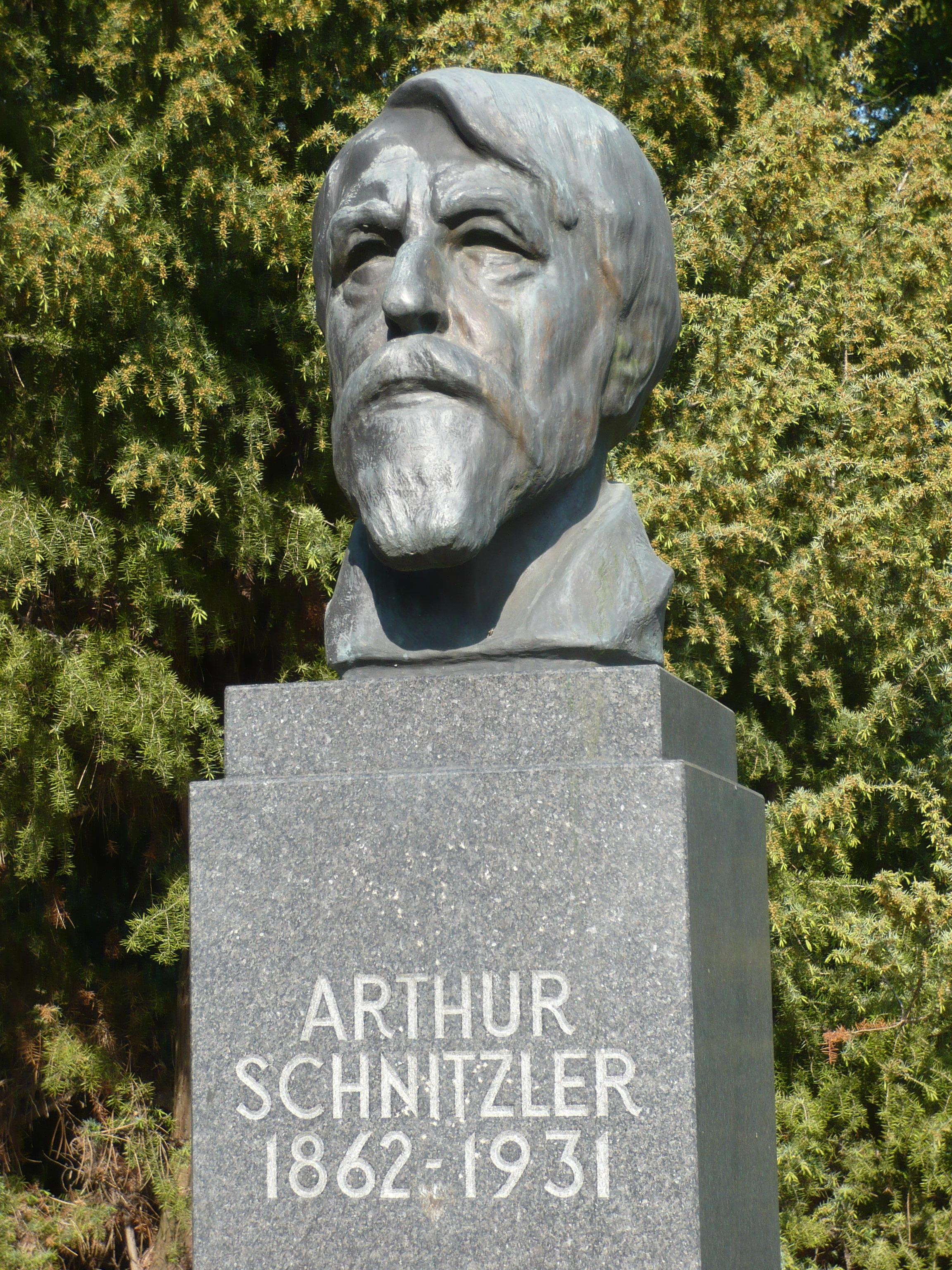 Bust of Arthur Schnitzler in the Türkenschanz-Park in Vienna